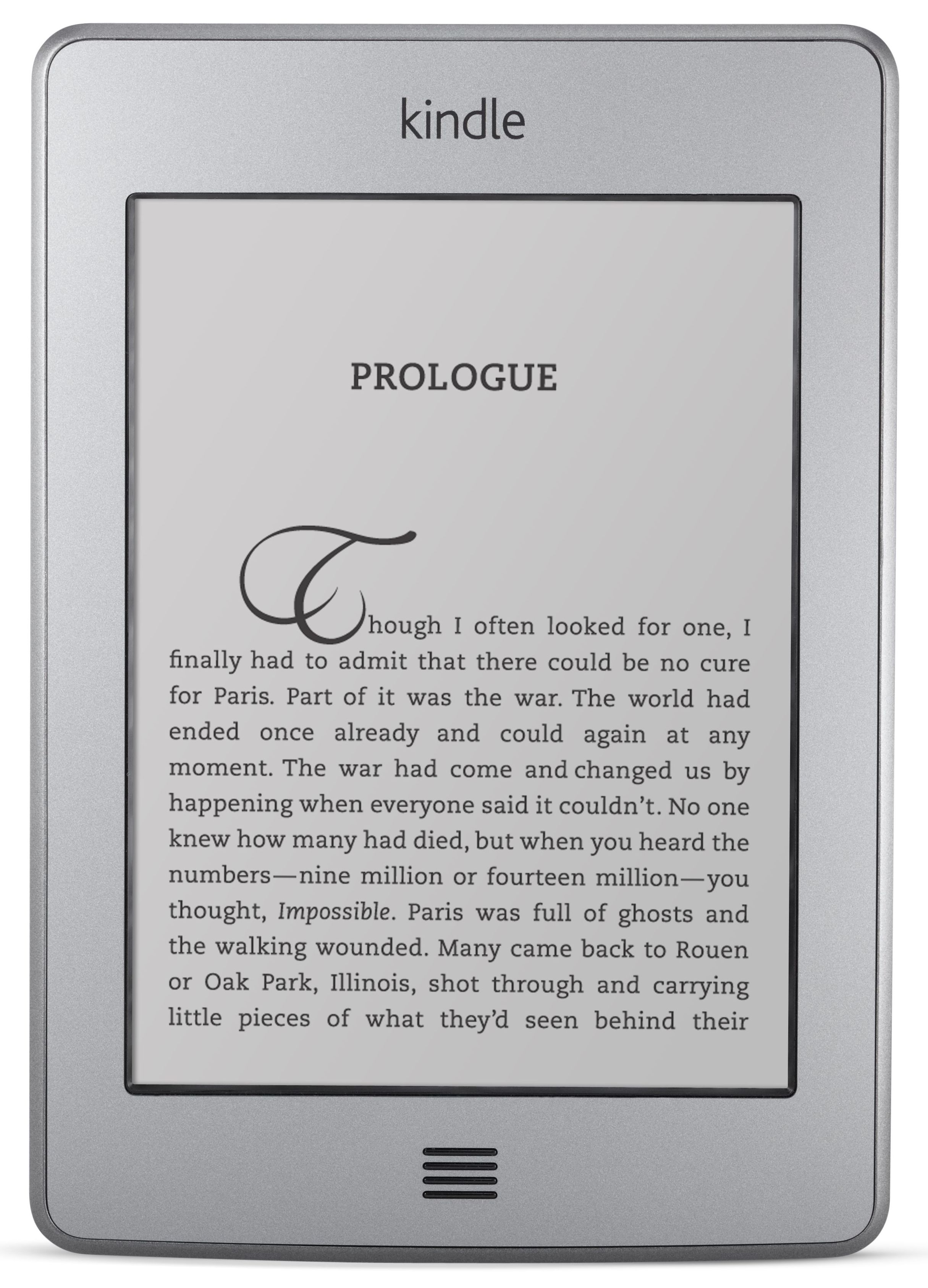 "The new lower price for these eReaders will make them hot sellers." -- Jason Blackwell, ABI Research "The new ad-supported Kindle brings the industry-standard eBook reader to its lowest price ever." -- Paul Erickson and Bill Morelli, IMS Research "For readers in your life, the $79 Kindle is a no-brainer gift." -- Danielle Levitas, IDC Intel Free Press story: Holiday Gift Guide: Tech Experts' Top Picks.